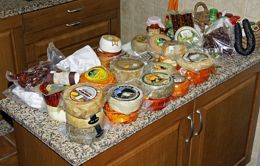 Quesos de la provincia de Cáceres